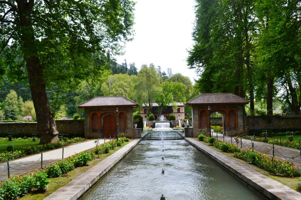 Ruins of Mughal Hamam at Achabal, Anantnag.